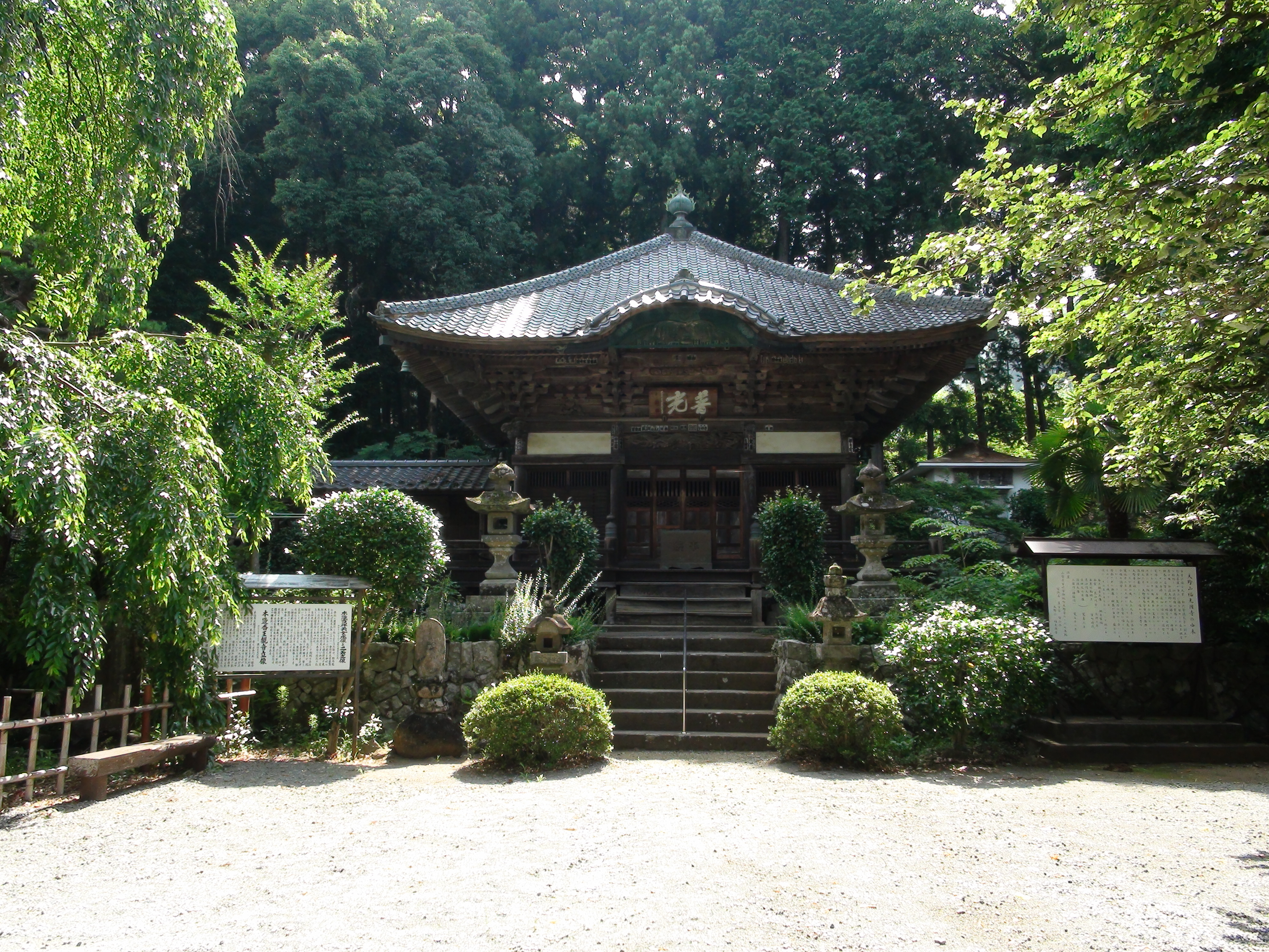 Fukkou-onji Temple Fuefuki-city